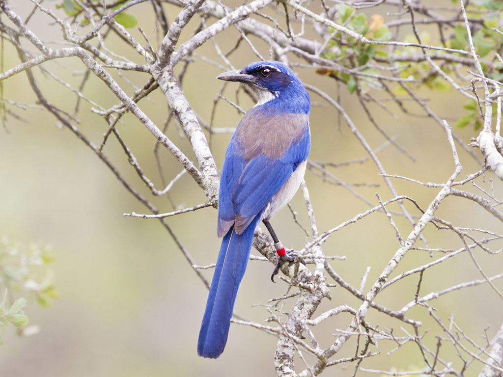 Aphelocoma insularis, Santa Cruz Island in the Channel Islands National Park, California, USA.